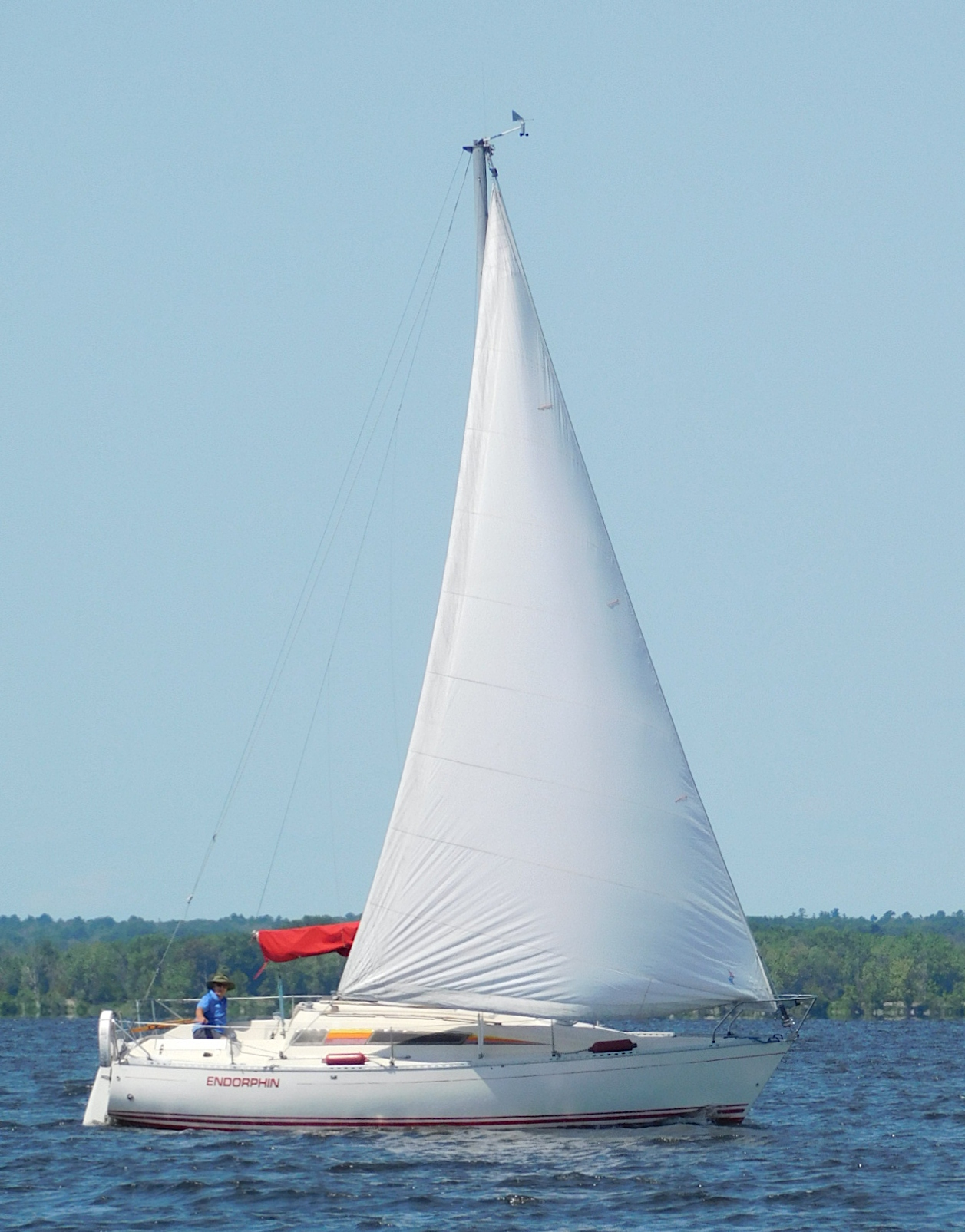 A Beneteau First 26 sailboat named Endorphin.